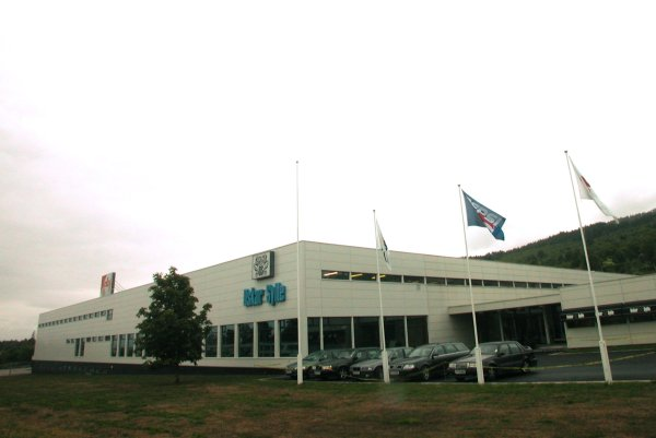 Oskar Sylte Mineralvannfabrikk photographed 2 July 2004 by Pladask. The picture was taken with a wide angle lens on a Nikon Coolpix 5000, and scaled down in GIMP.